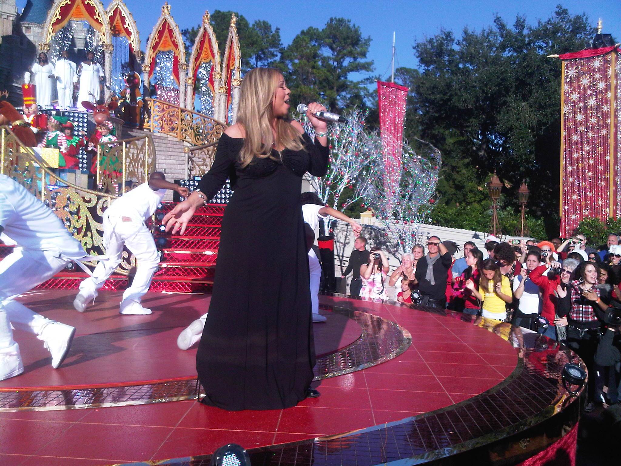 A pregnant Mariah Carey performing at the Magic Kingdom at the Walt Disney World Resort